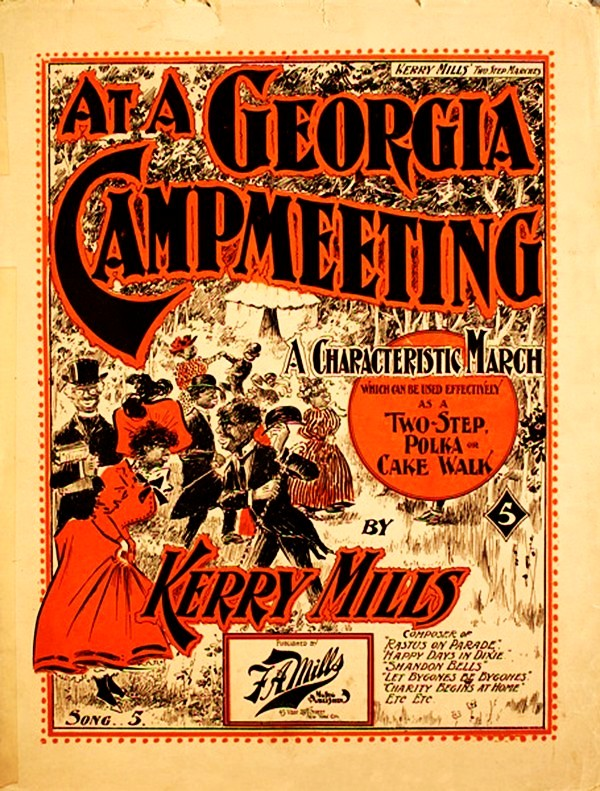 At A Georgia Camp Meeting, 1897